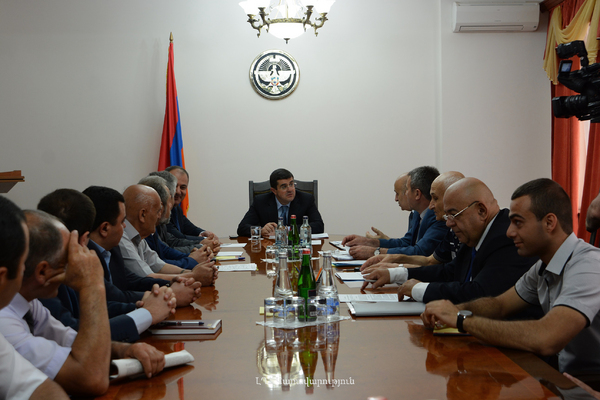 ՇՏՀ հոգաբարձուների խորհրդի նիստ